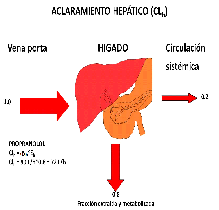 Hepatic clearance